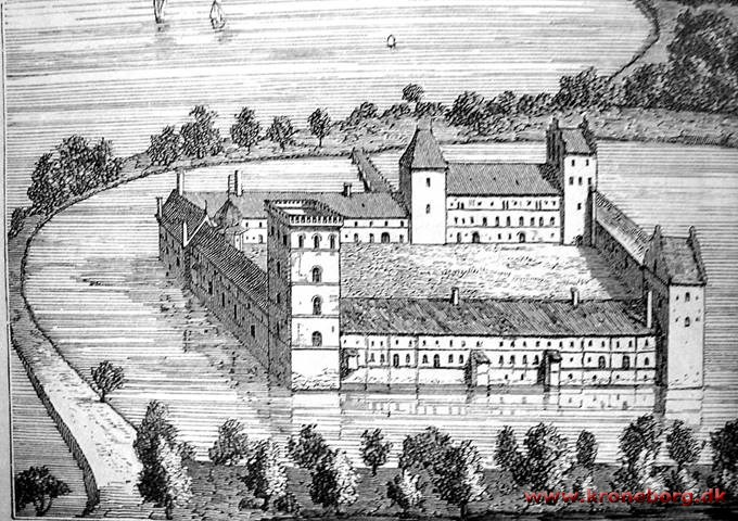 Aalholm at Nysted on Lolland in Denmark